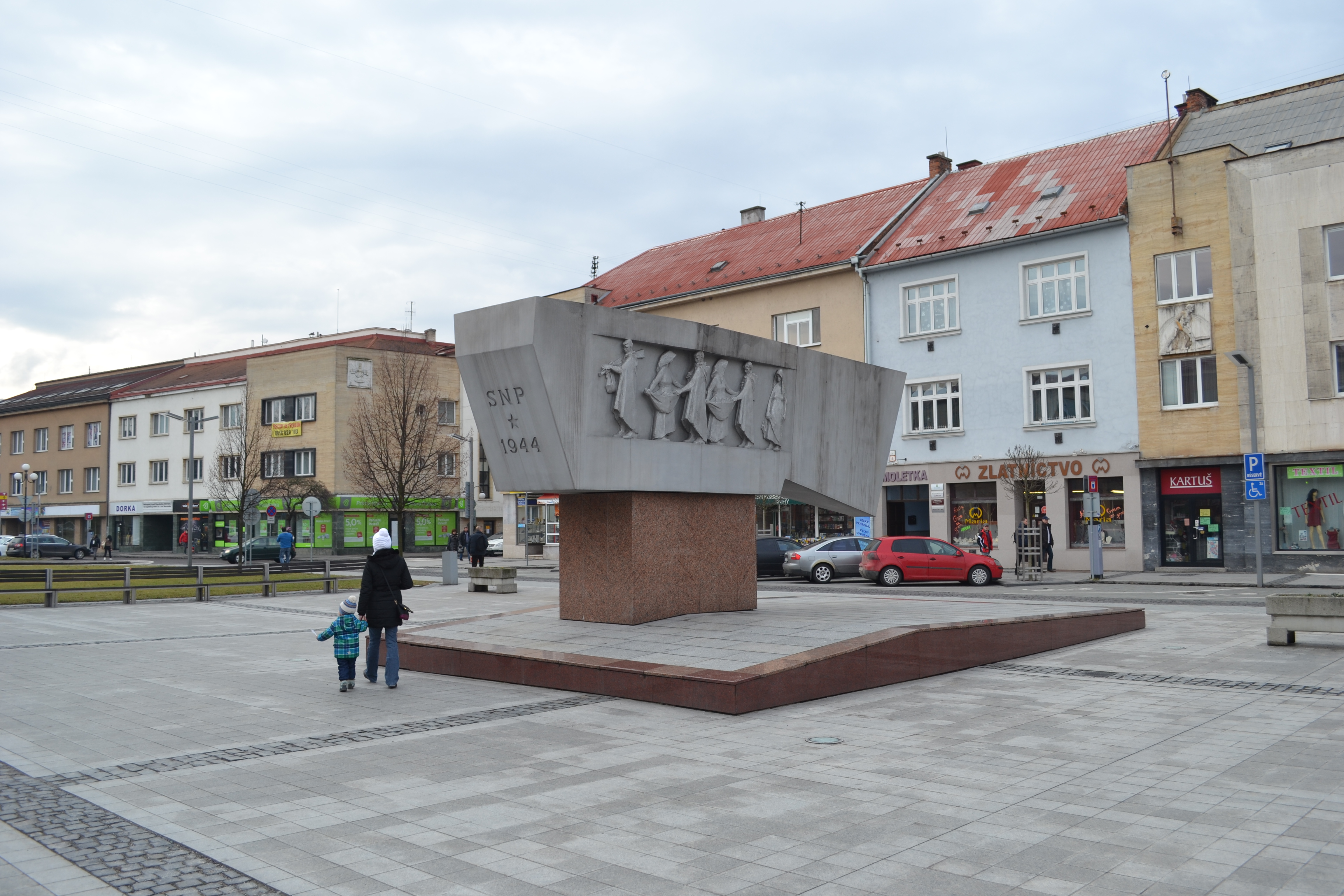 Slovak National Uprising memorial in Zvolen